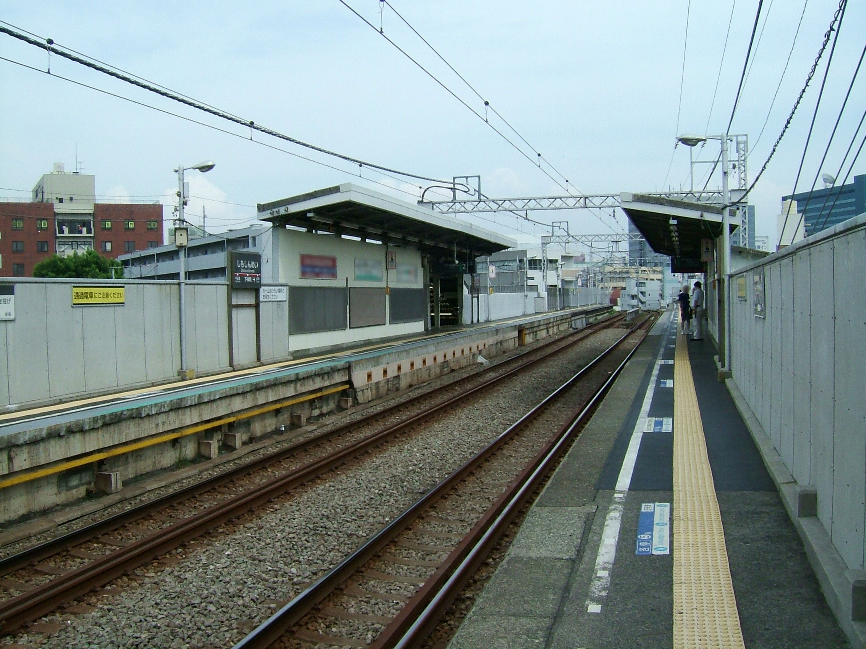 Shimo-Shimmei Station platform (Tōkyū Ōimachi Line)